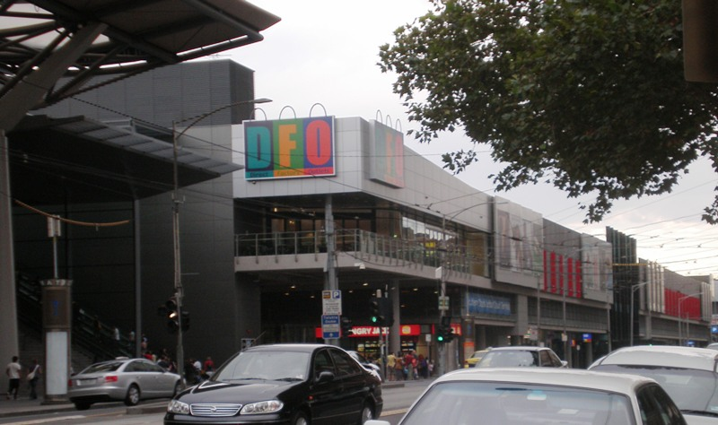 Direct Factory Outlets on Spencer Street